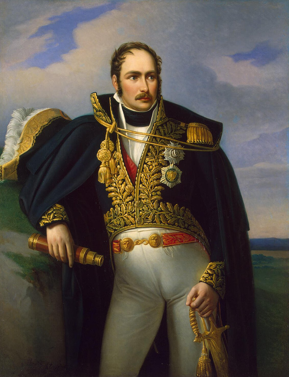 Portrait of his Imperial Highness French of Prince Eugéne De Beauharnais,prince of Venice, Viceroy of Italy, Arch chancellor of state of the empire of France